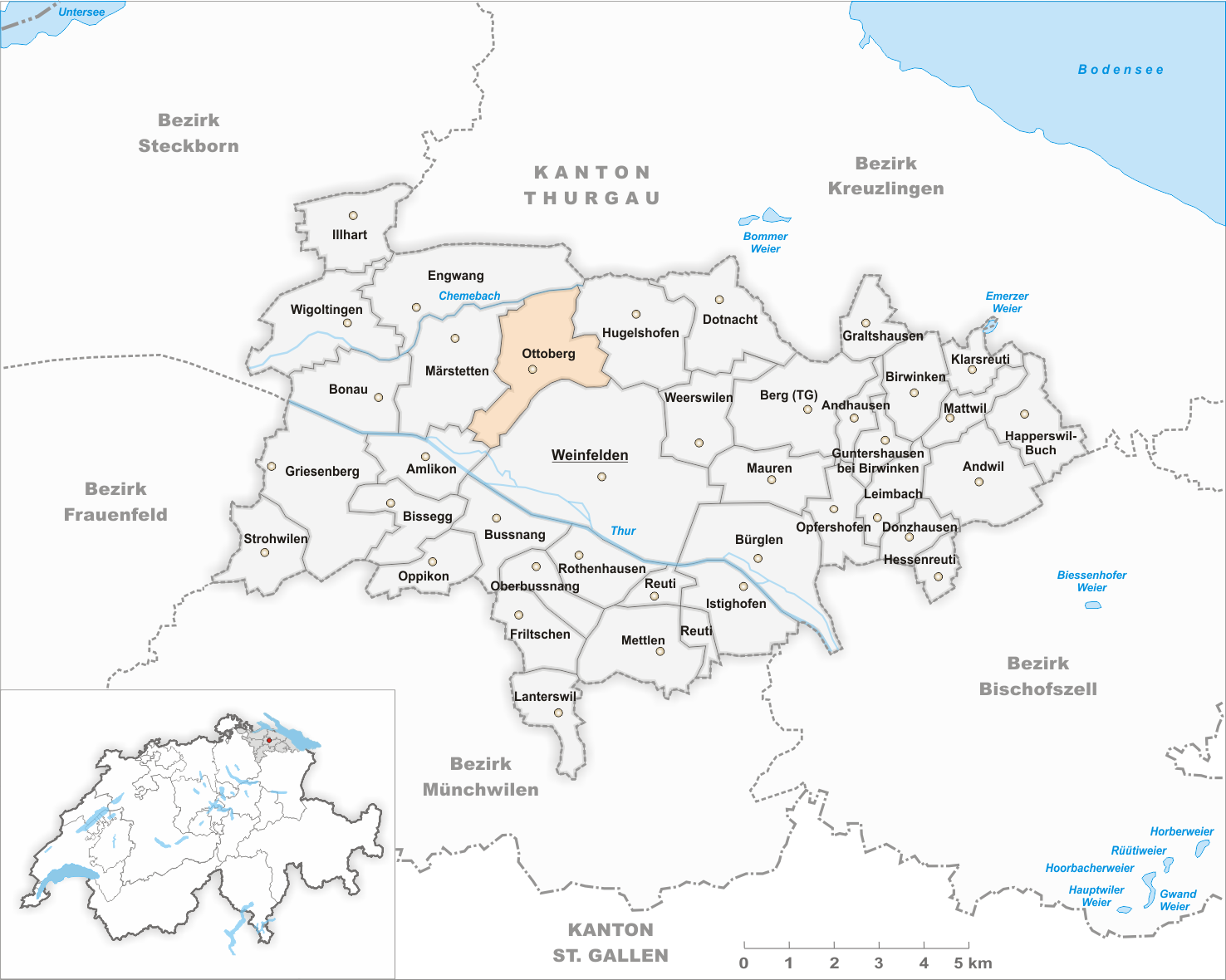 Municipality Ottoberg